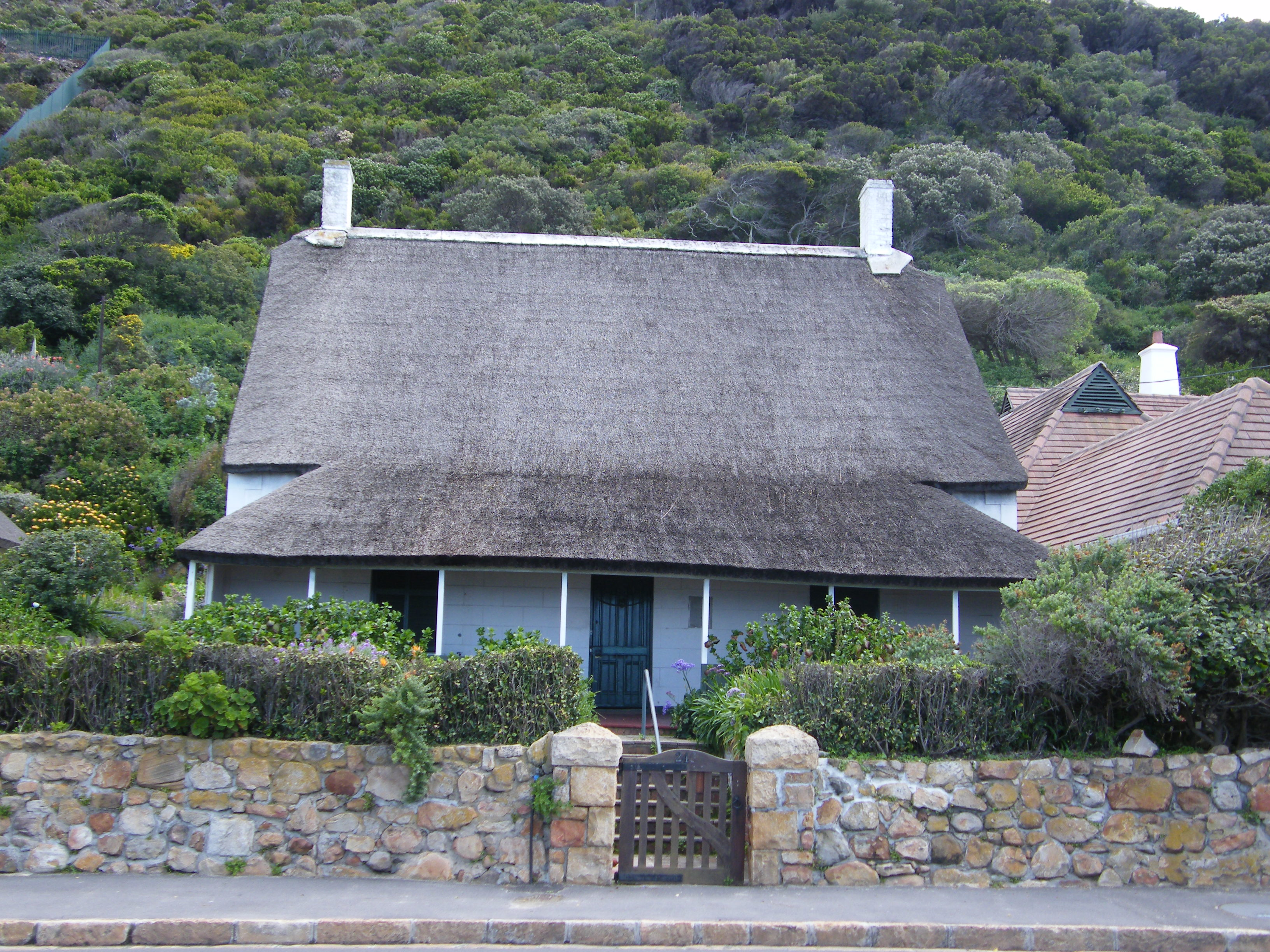 Rhodes Cottage